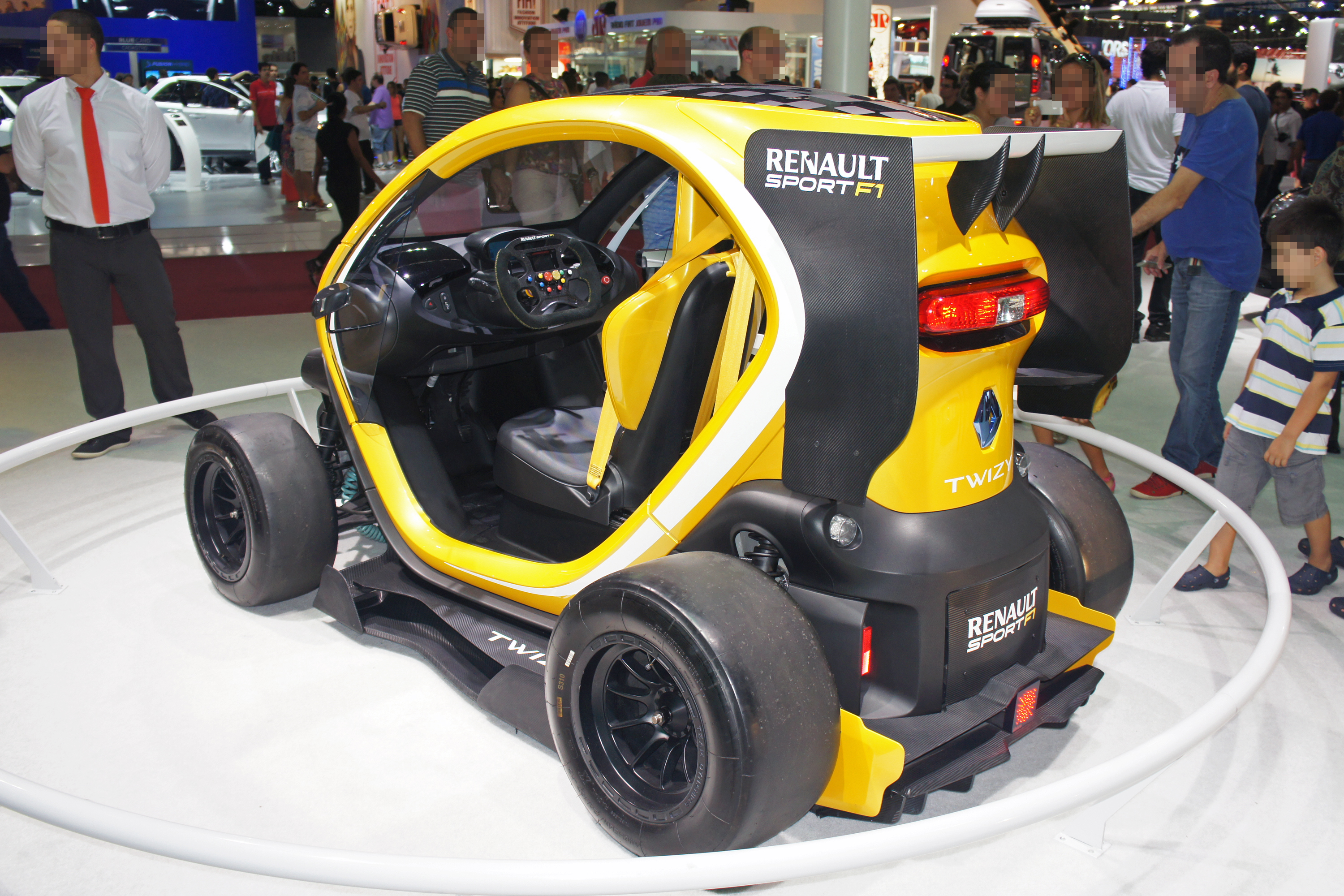 Renault Twizy exhibited a the Salão Internacional do Automóvel 2014 São Paulo, Brazil.